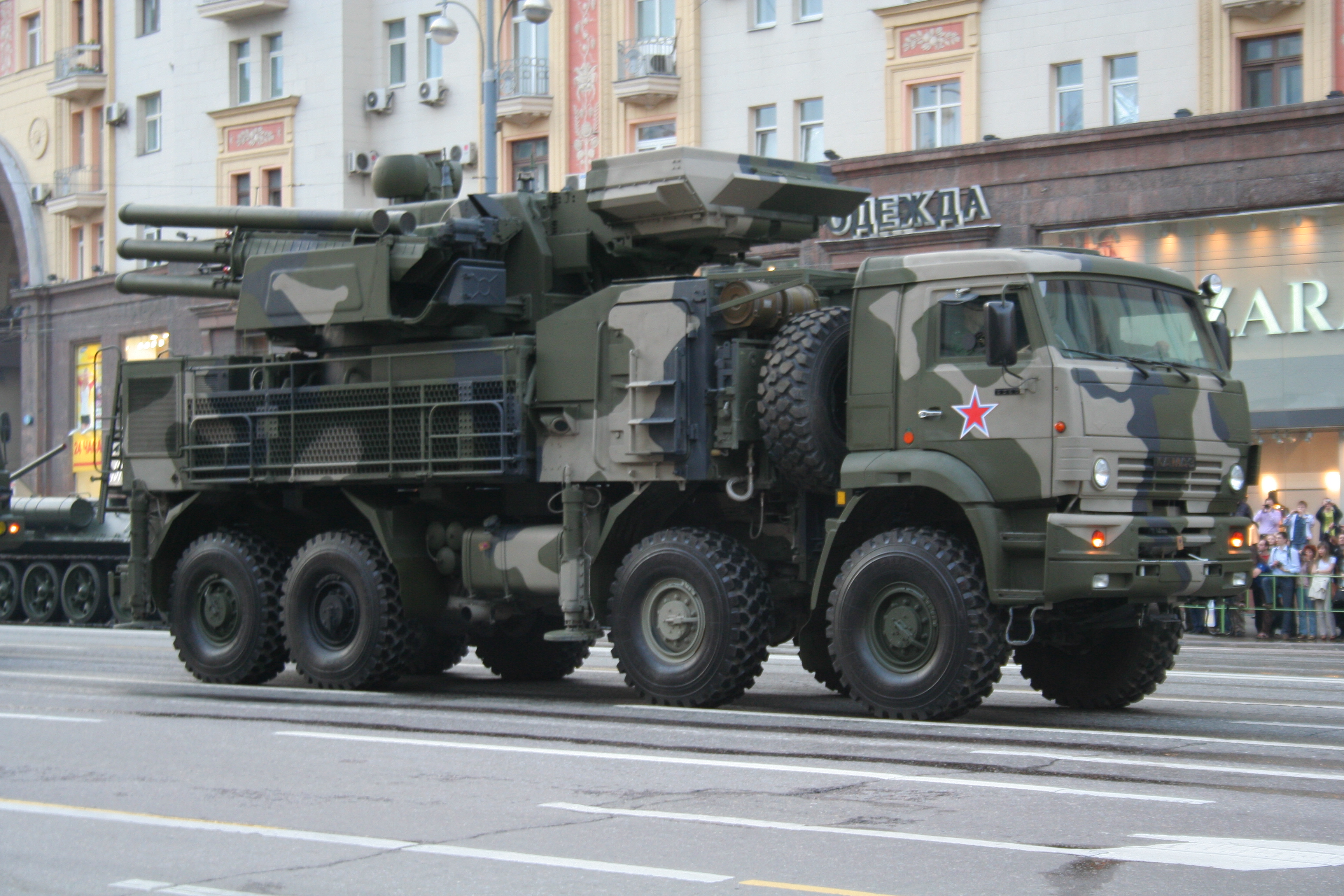 Training of Moscow Victory Parade 2010.